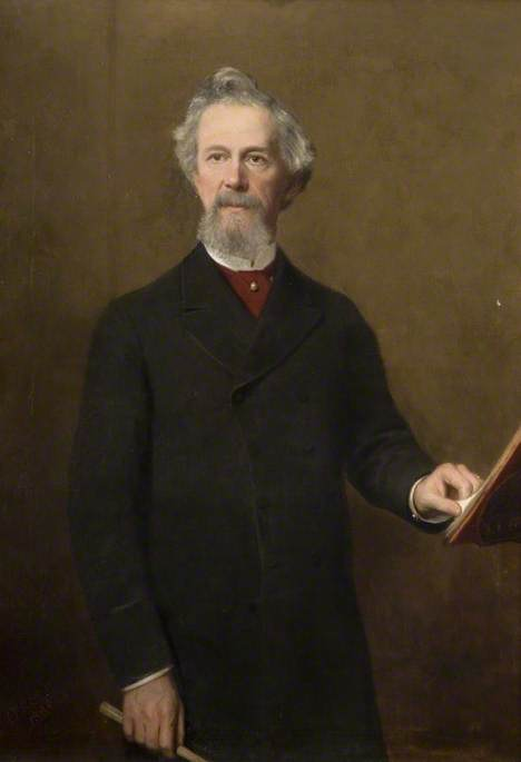 The conductor William Stockley (1829–1919), portrait by Henry Turner Munns (1832–1898)